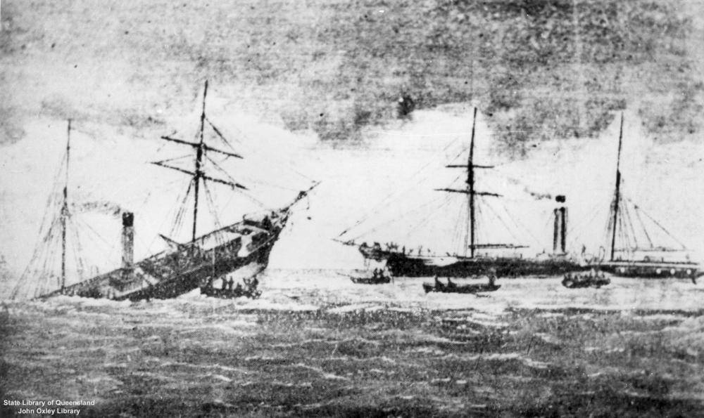 Sinking of the sail- and steamship City of Launceston in Port Phillip in 1865